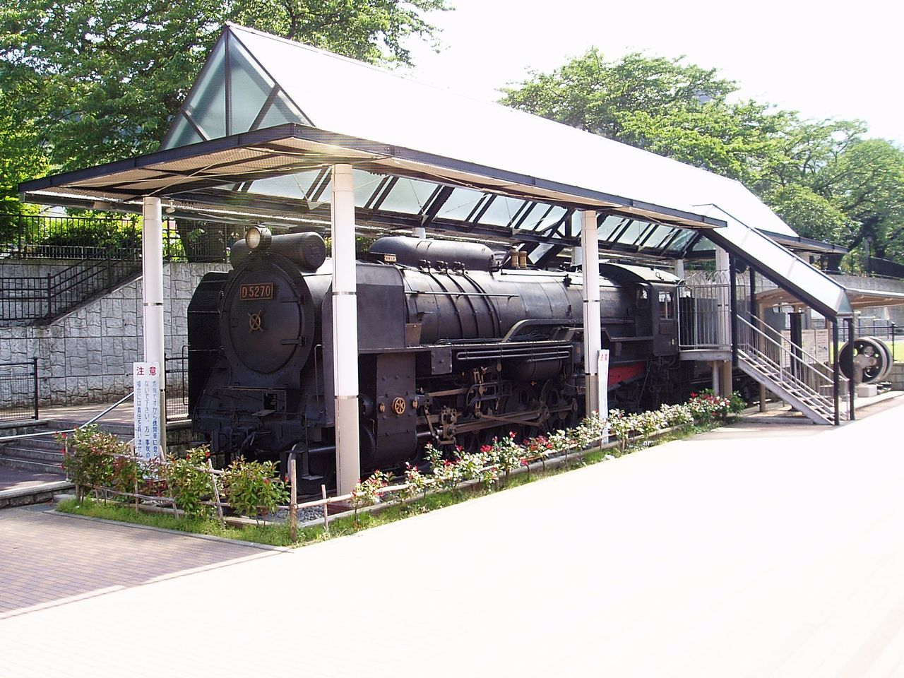 Japanese National Railway, Steam locomotives type D52 at Railway Park Yamakita town